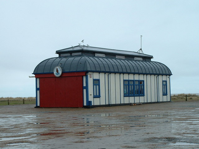 A picture of the former lifeboat house of Cromer, now located at Southwold in Suffolk.